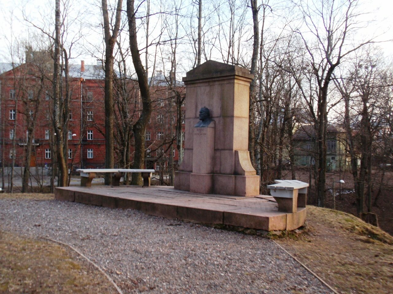 Monument to Ernst von Bergmann (1836–1907) in Tartu by Adolf von Hildebrand (1847–1921).